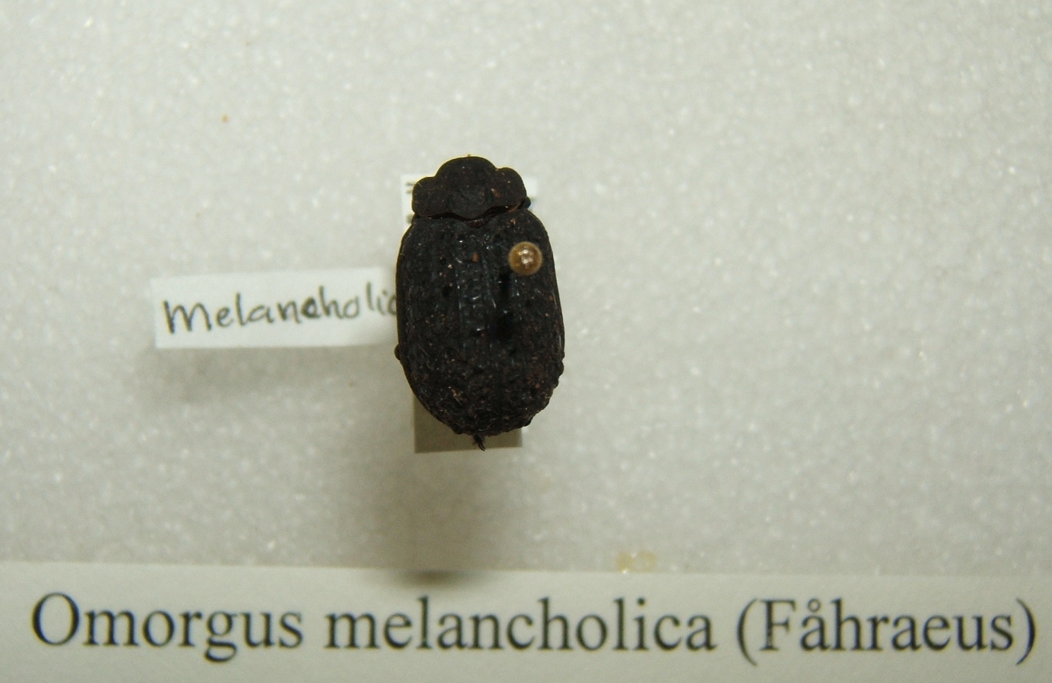 Omorgus melancholica adult taken by Shawn Hanrahan at the Texas A&M University Insect Collection in College Station, Texas.